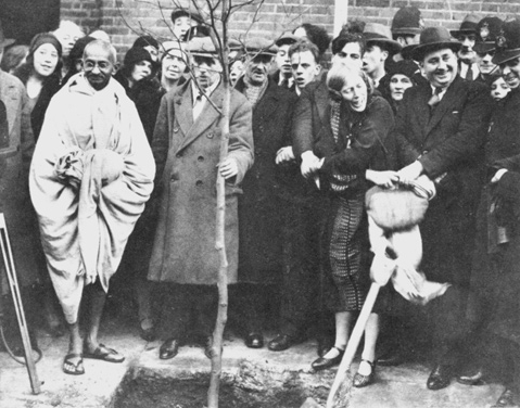 Gandhi planting a tree outside Kingsley Hall, East End, London, England, December 3, 1931. The tree has been destroyed in World War II by a flash and was replanted by Lady Attenborough in 1984.